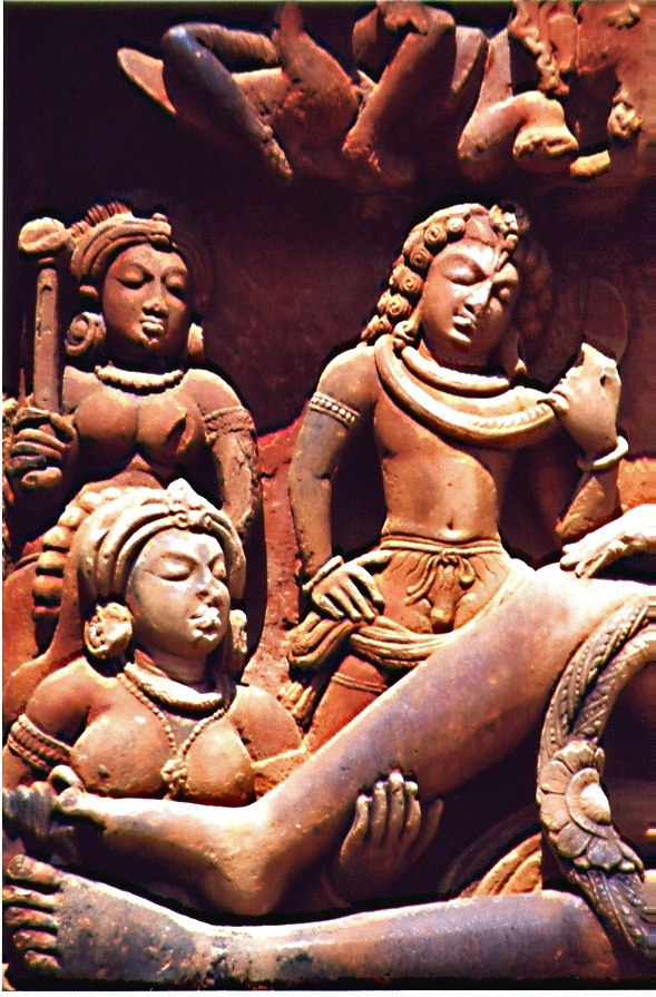 Photo 2813 Lakshmi, consort of Vishnu, supports the leg of the sleeping Vishnu